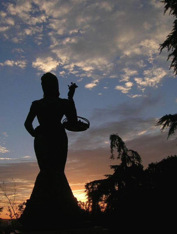 Monument to La Violetera at Jardines de Las Vistillas (a park) in Madrid (Spain). Made by sculptor Santiago de Santiago and inaugurated in 1991. La Violetera is a famous song by José Padilla Sánchez (1889–1960).